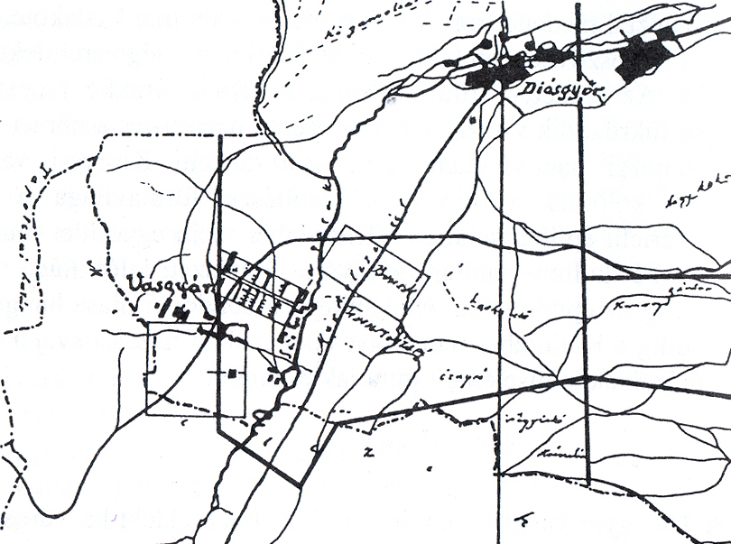 Antal Péch: Map of Diósgyőr-Vasgyár, 1867